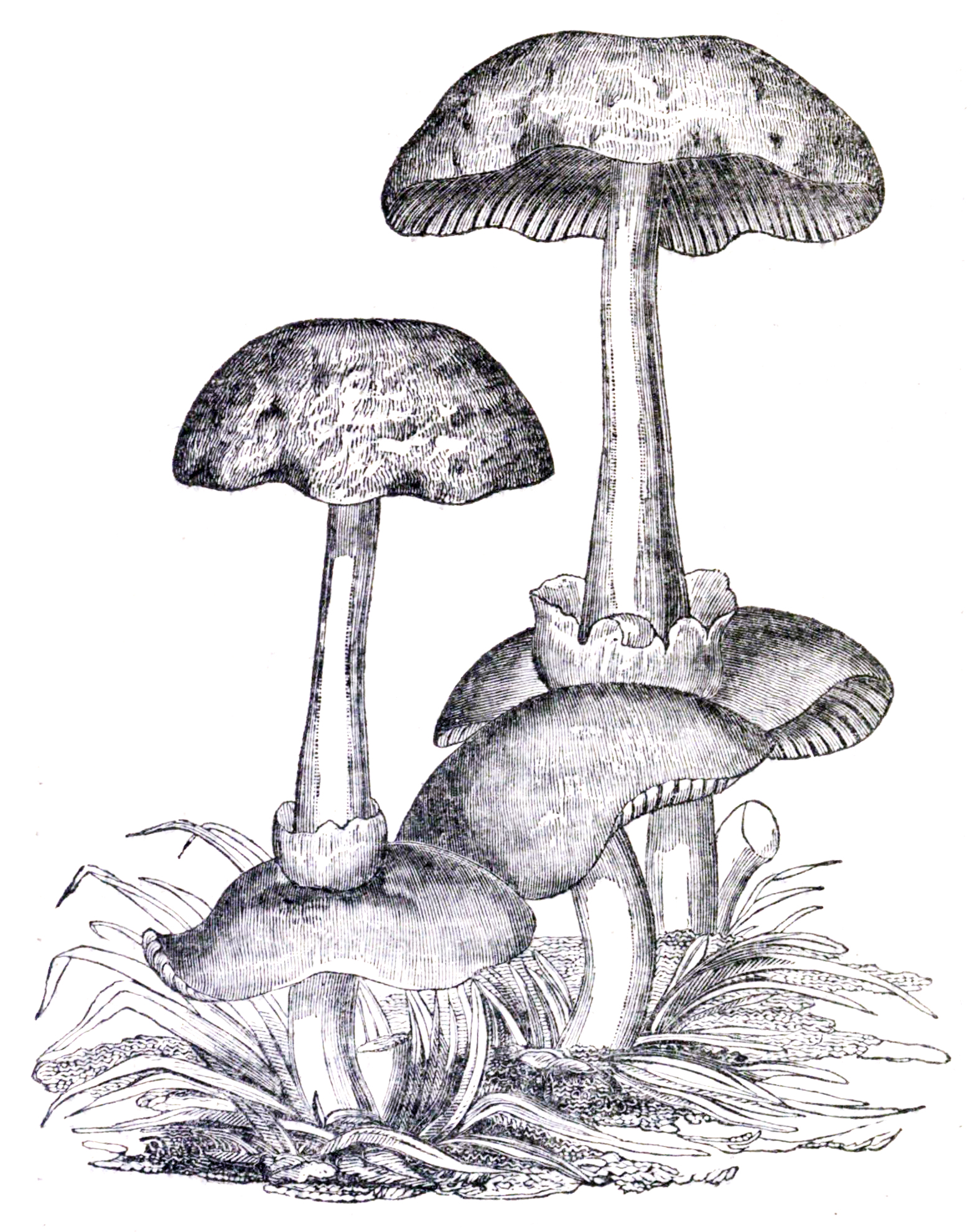 Drawing of the mushroom Agaricus surrectus, currently known as Volvariella surrecta (Knapp) Singer. Source: Knapp, John Leonard (1829). "The Journal of a Naturalist". London :J. Murray. p. 378.